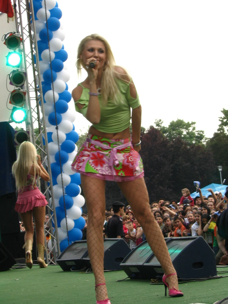 Cristina Rus performing in Blondy duo.